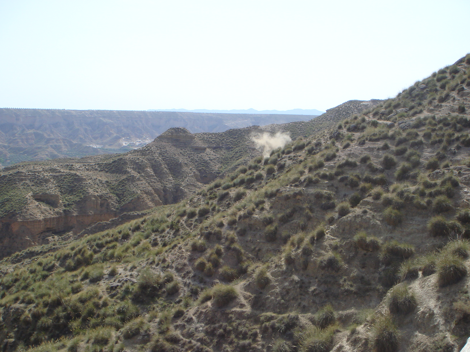 Guadix valley, Spain, province of Granada, near Gorafe.